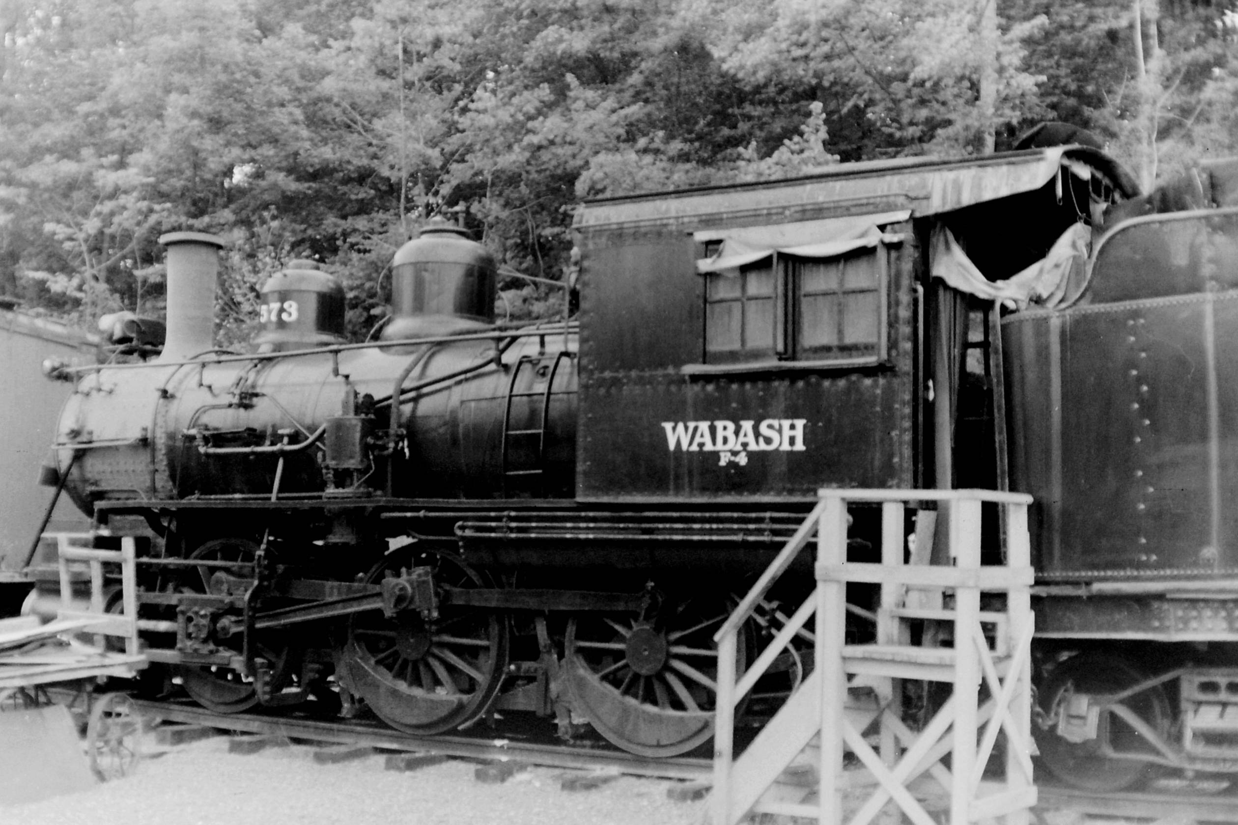 Wabash RR class "F-4" 2-6-0 No.573 (Rhode Island 3147 of 1899) at the National Museum of Transport, St Louis, 8/70. 131 of these moguls of different classes (some simples, some compounds) were built: 24 F-4 simples by RI and Richmond Works in 1899, 4 F-5 compounds by RI and Richmond Works in 1899, 66 F-6 compounds by RI, Richmond Works and Baldwin 1901-03, and 37 F-7 simples by Baldwin in 1904. They were withdrawn 1927-55.